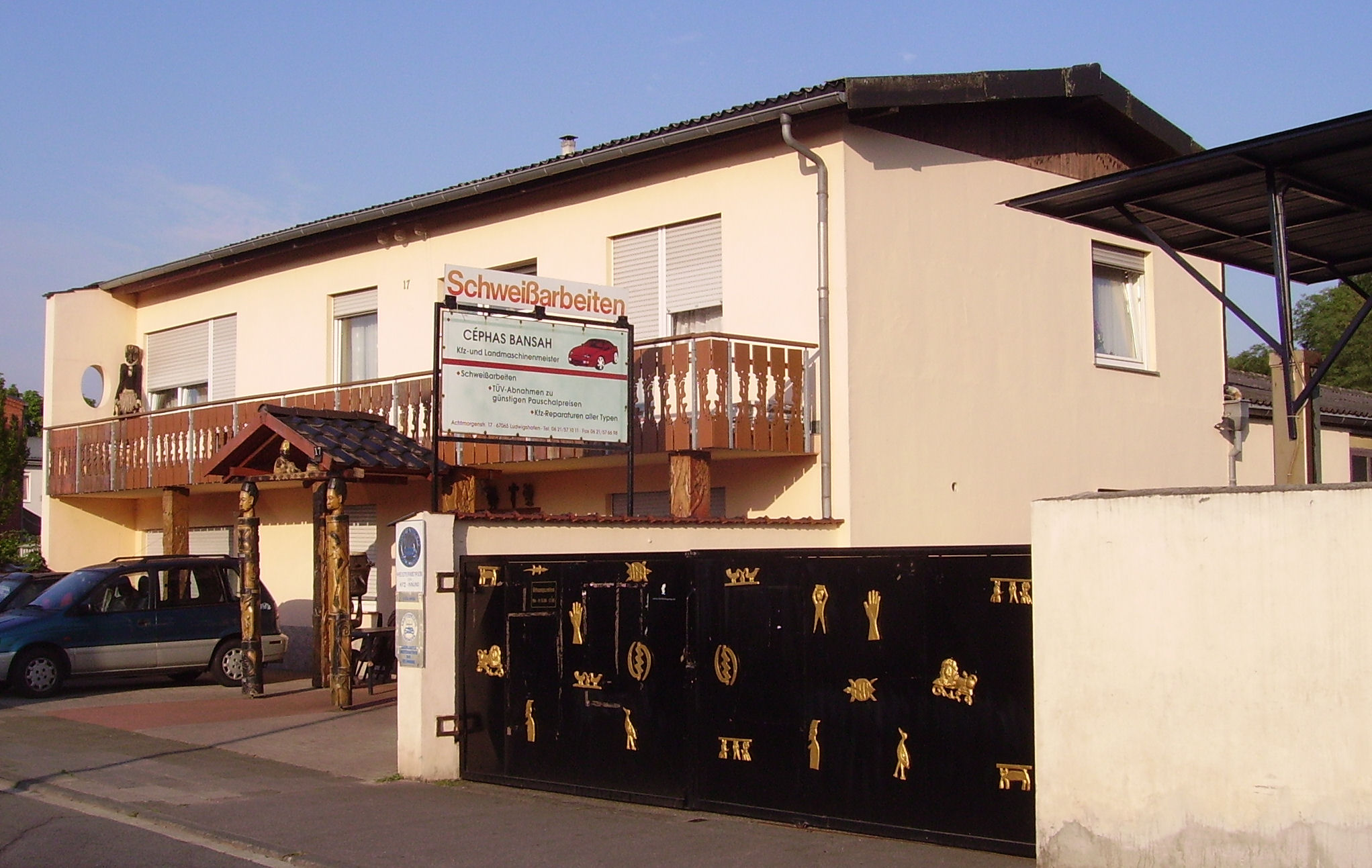 house of Céphas Bansah in Ludwigshafen, Germany